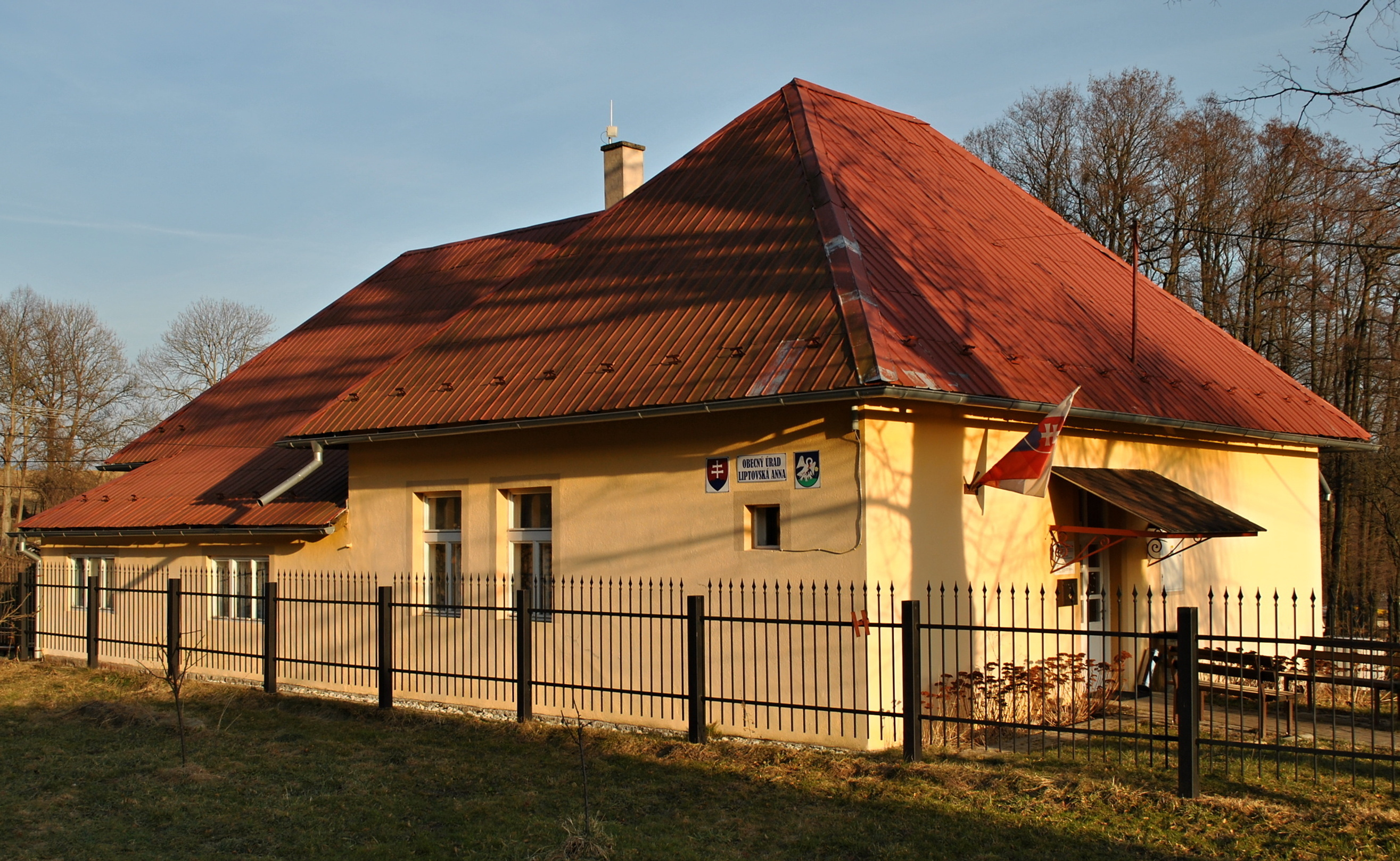 Liptovská Anna, near town of Liptovský Mikuláš - Building of the municipal office